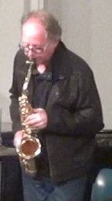 Blaise Siwula playing at COMA in 2012